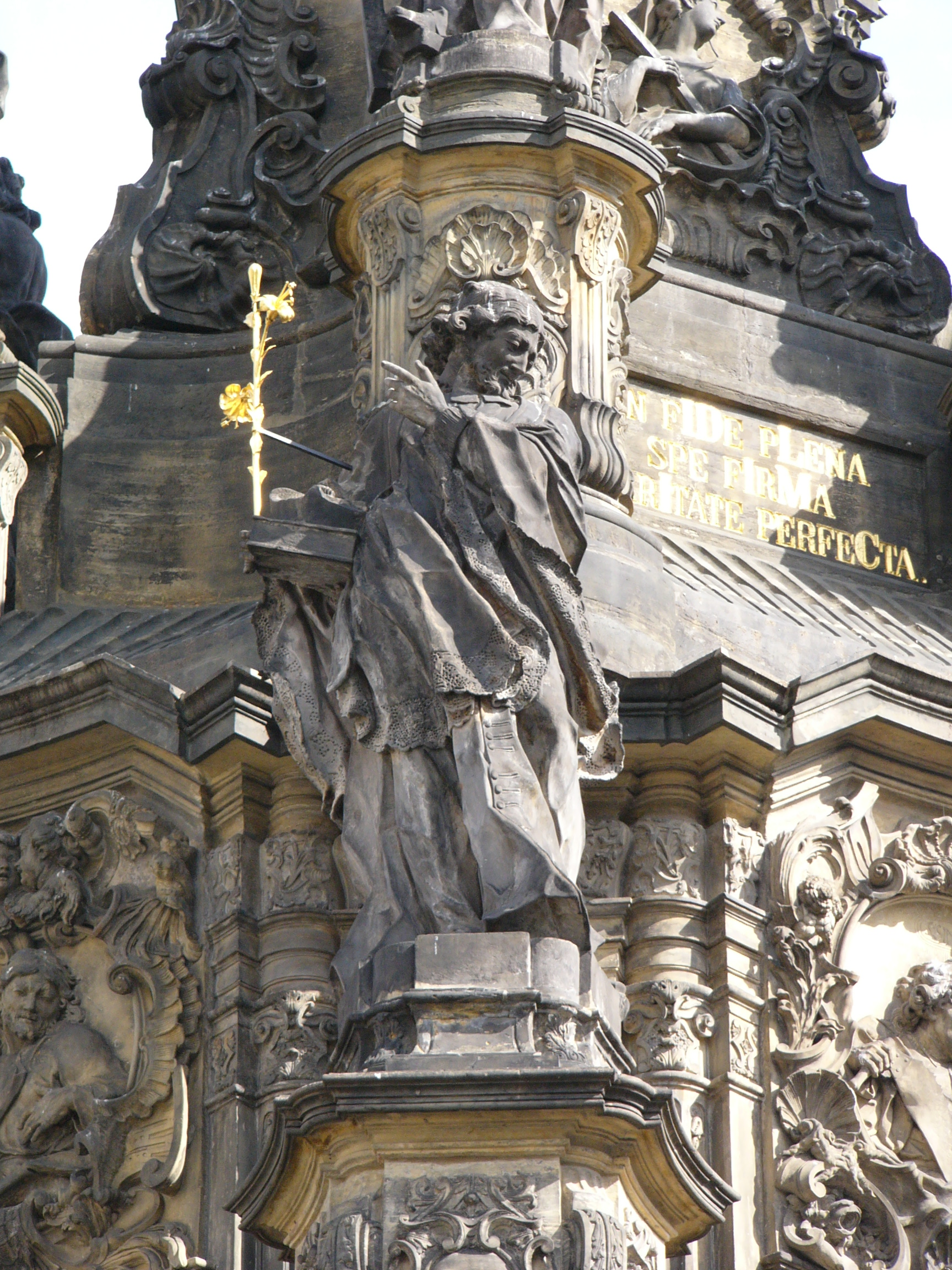 Statue of Saint John Sarkander on the Holy Trinity Column in Olomouc in Olomouc (Czech Republic).